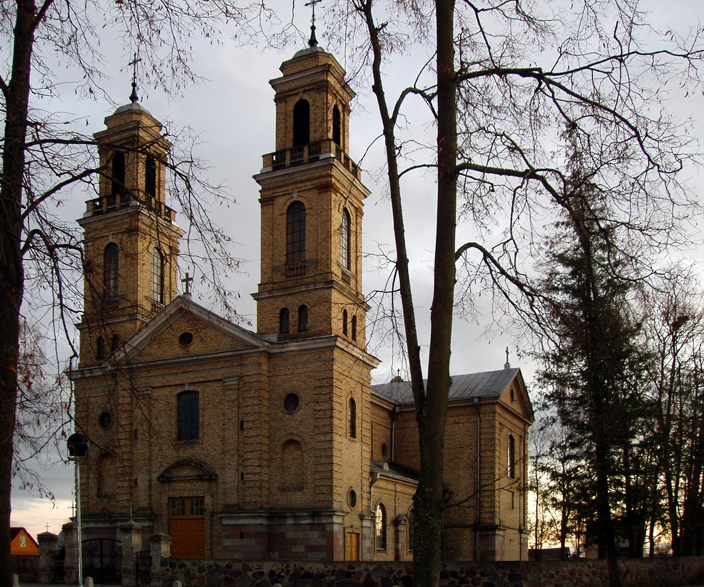 Vievis church, Elektrėnai municipality, Lithuania